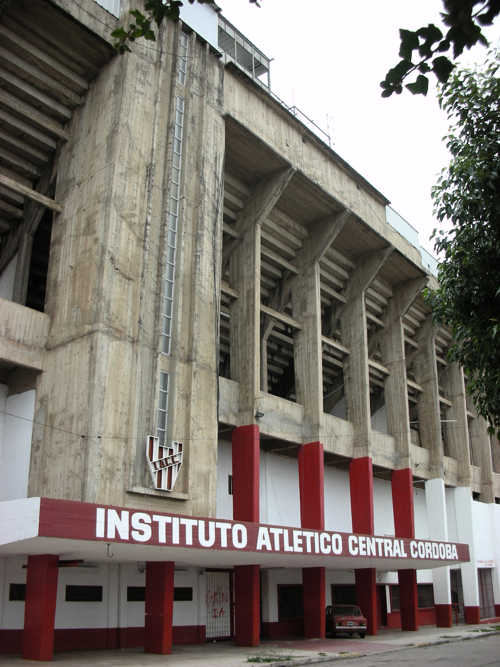 Fachada del Estadio Juan Domingo Peron, de Instituto Atletico Central Cordoba